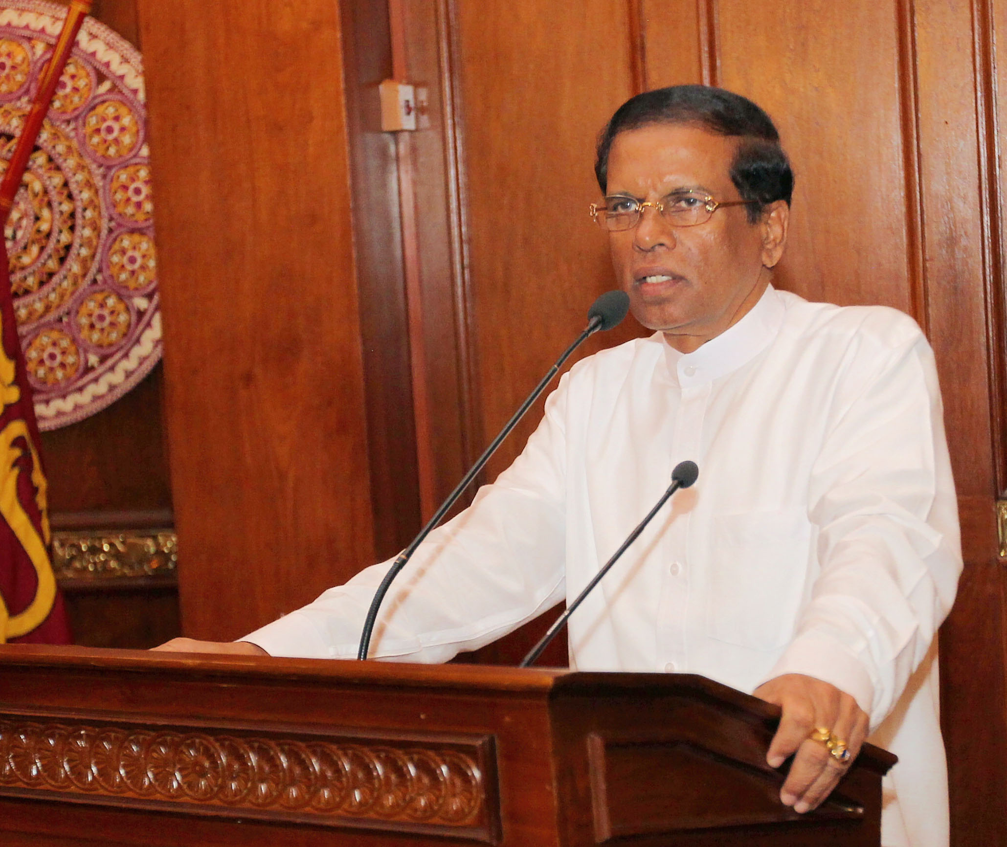 Photograph of President Maithripala Sirisena.